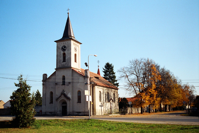 Church of St Adalbert of Prague in Přerov nad Labem, Czech Republic.